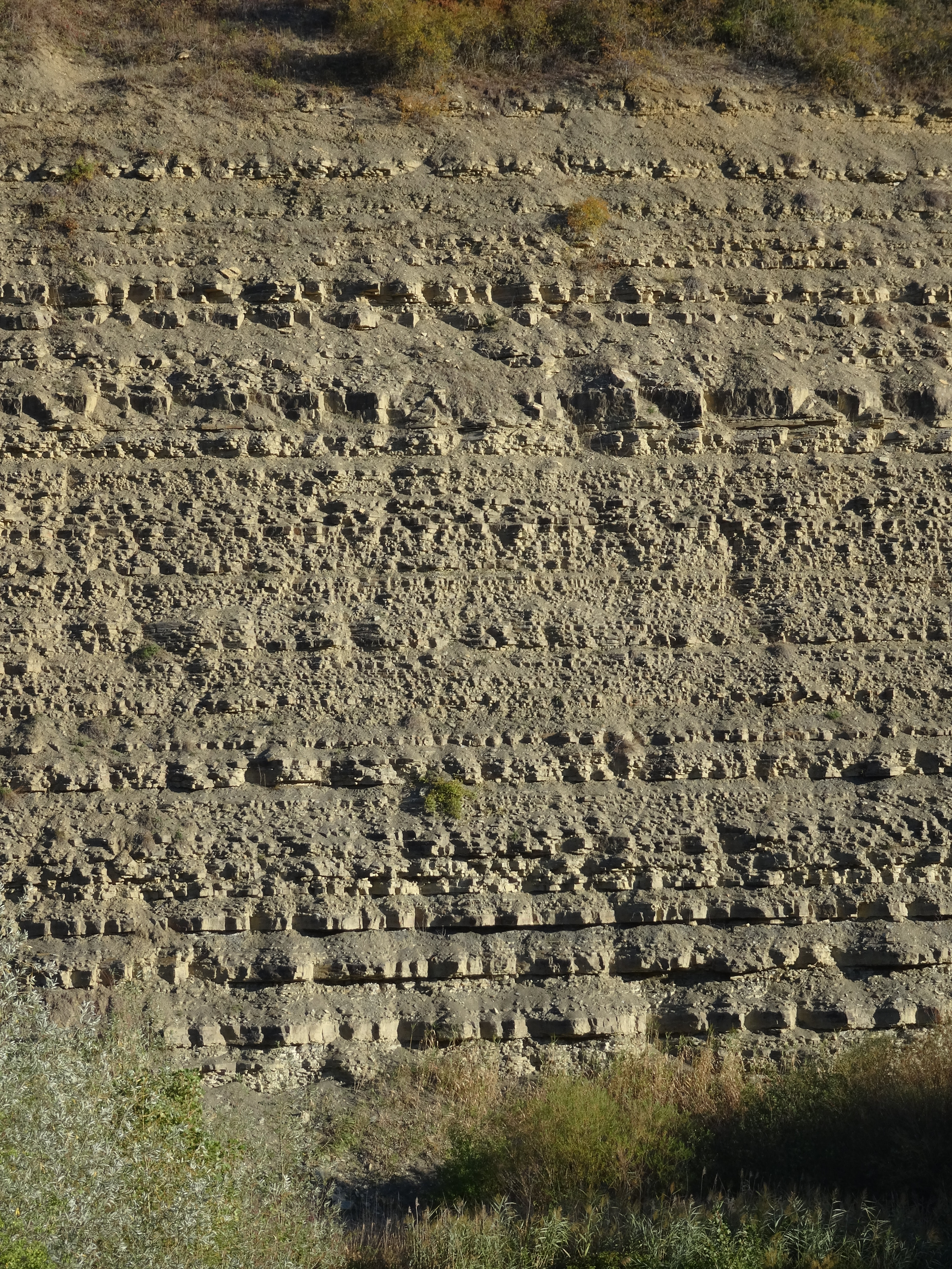 Geotope 675A008: Former limestone-quarry (upper muschelkalk) SSW of Dettelbach (Kitzingen, Bavaria)